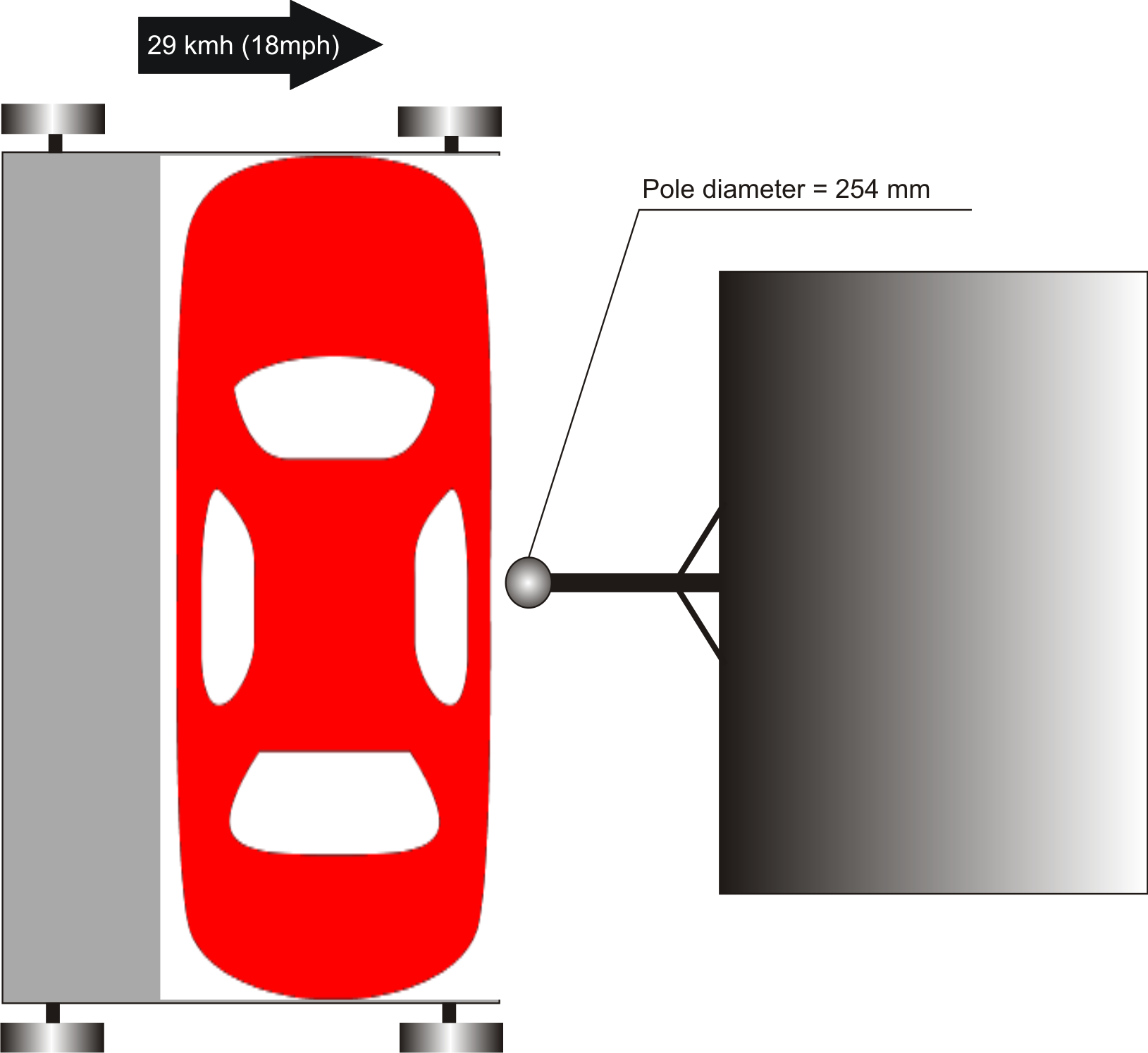 Euro NCAP pole impact test